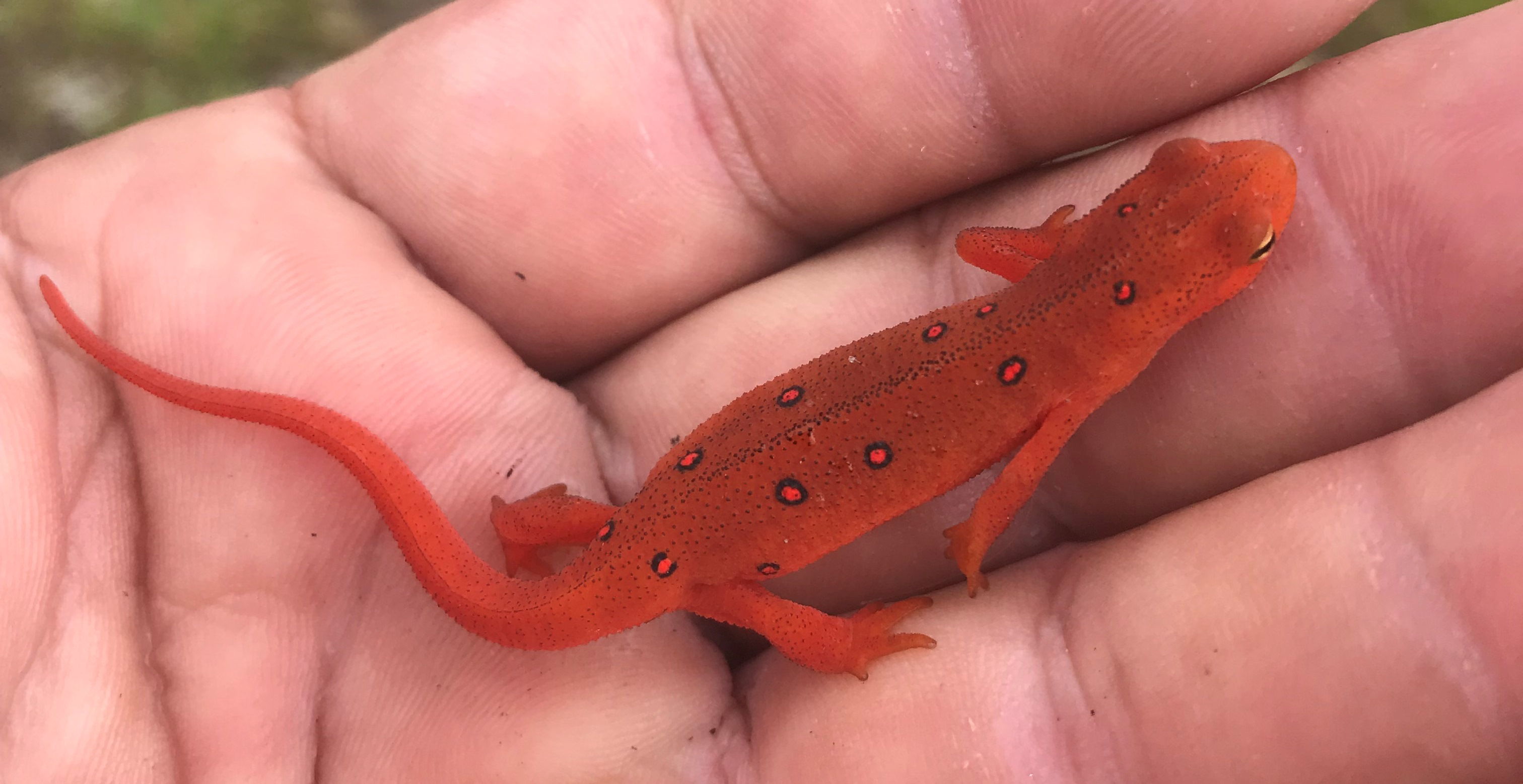 Photographs from a hike at Dolly Sods Wilderness by scout troop from Fairfax, Va in July 2019.